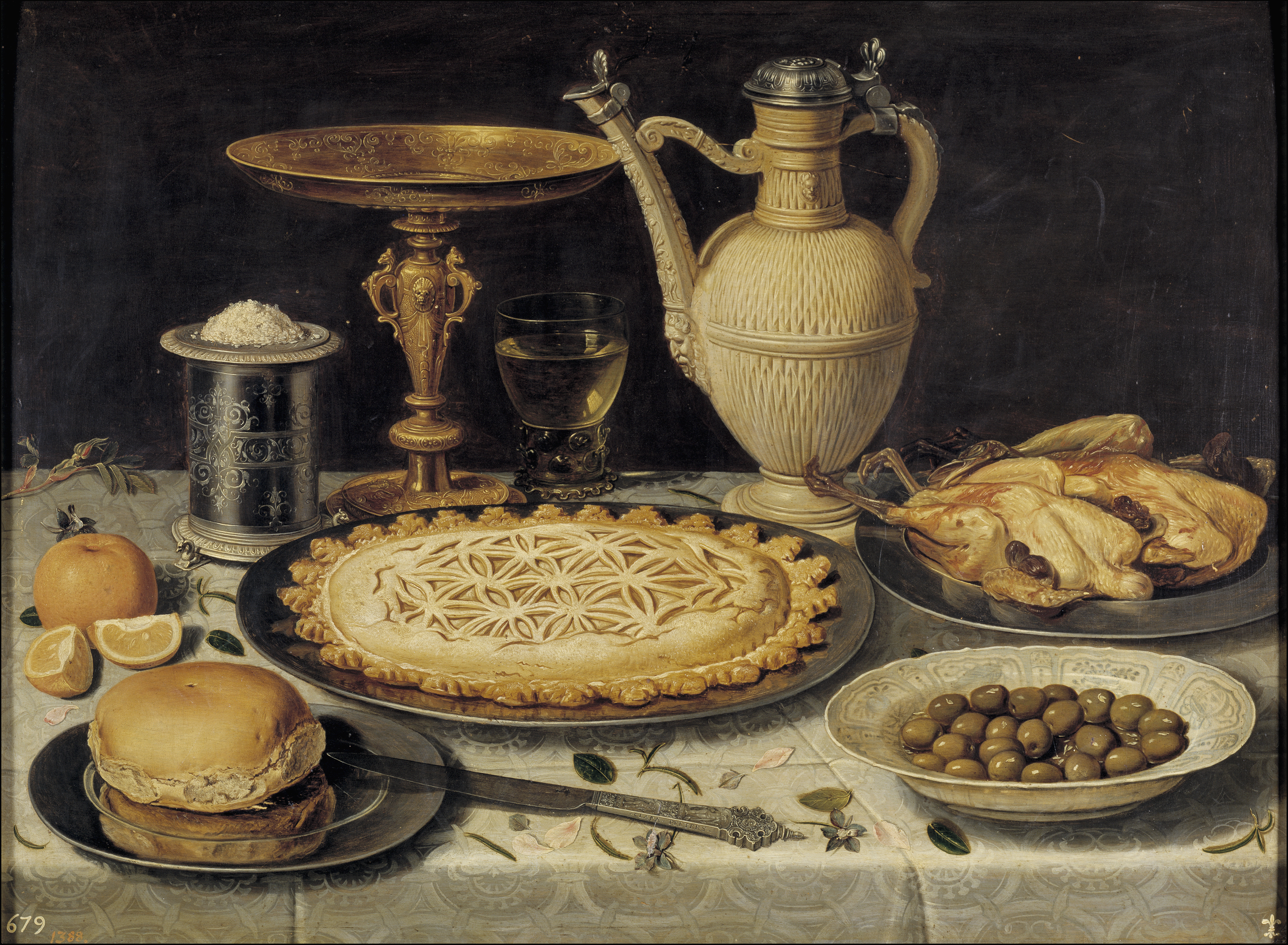 One of a set of four in the Prado, the other 3 dated 1611.